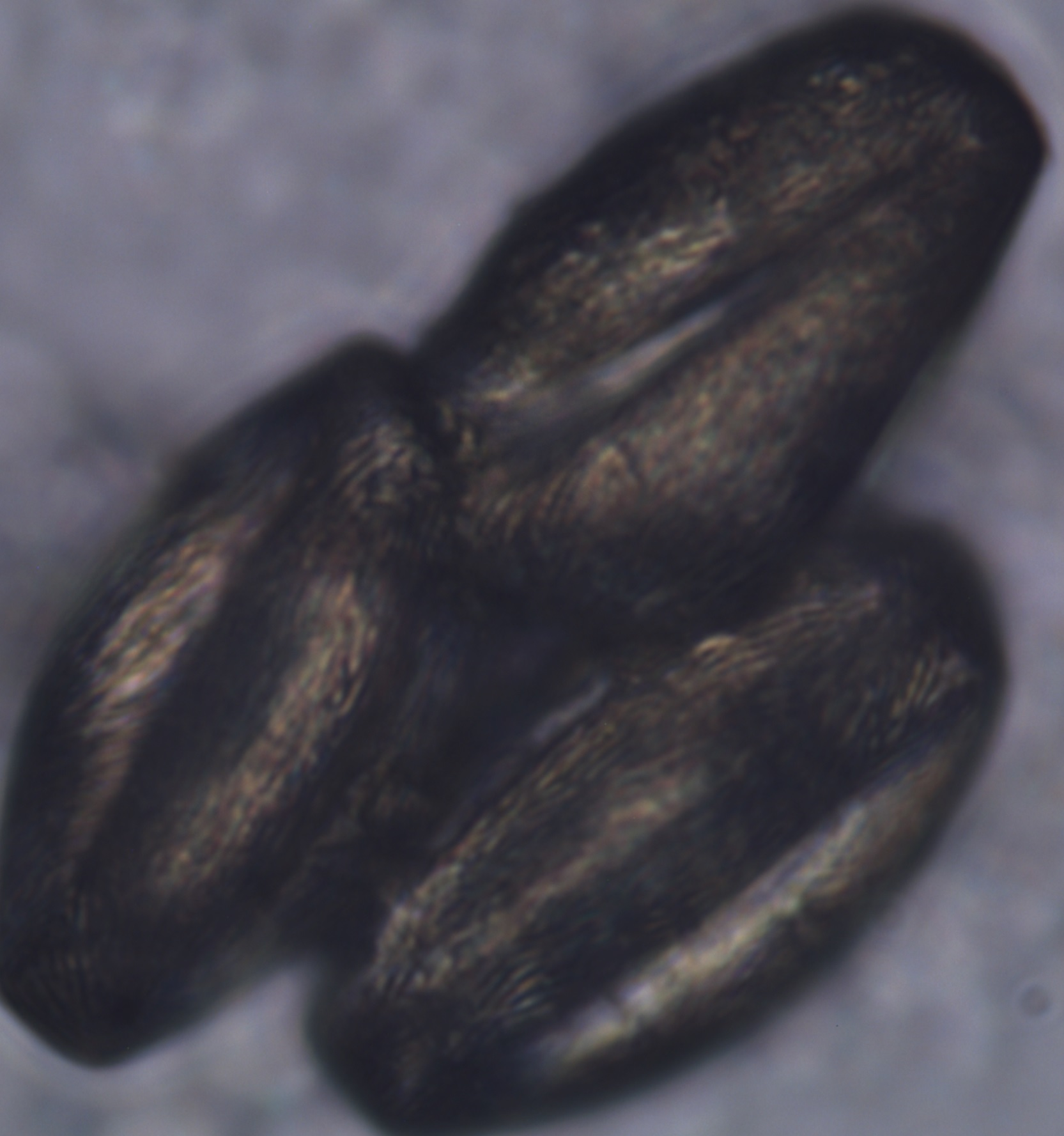 Prunus domestica subsp. domestica Pollen 400x